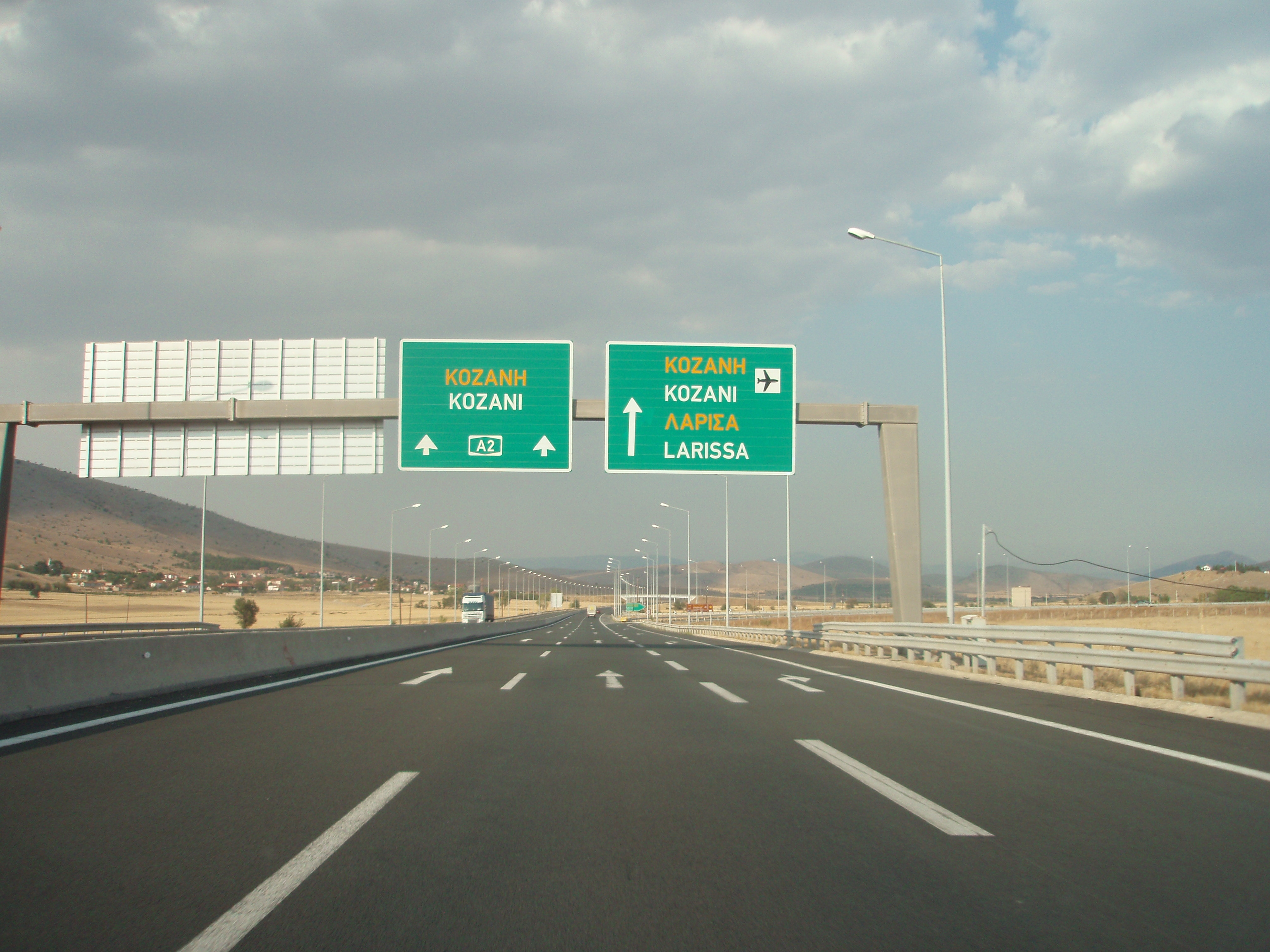 A2 motorway (Egnatia Odos) in Greece, section Siatista-Kozani. Exit at Kalamia (Kozani-West) is shown.